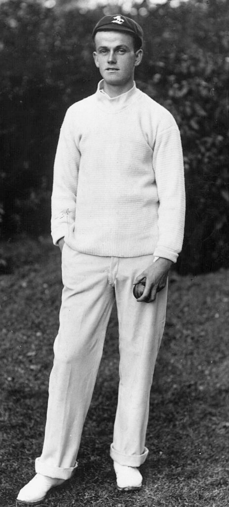 Colin Blythe, Kent and England, circa 1905.